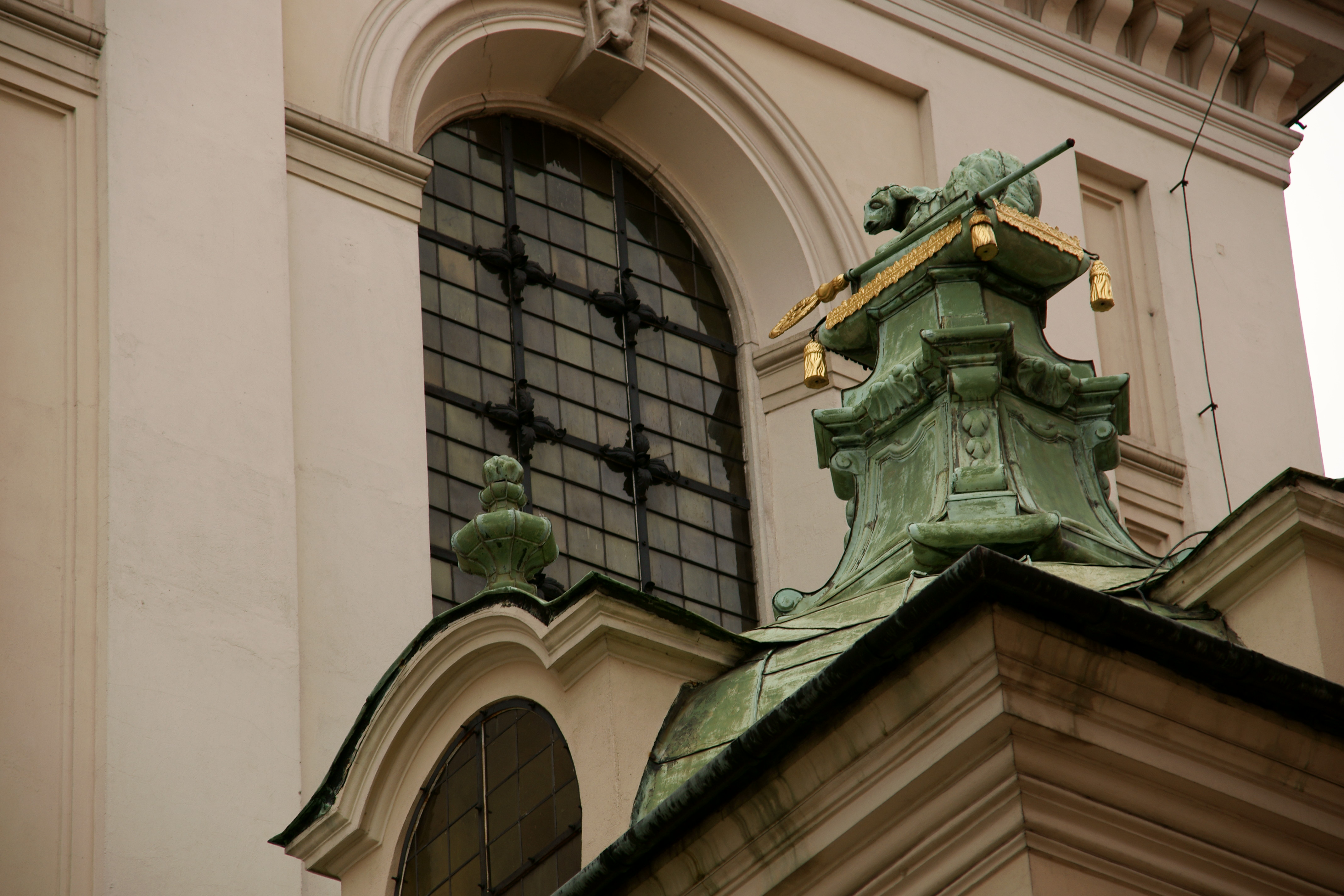 Wawel Castle, one of the windows of the Cathedral and a fragment of the Załuski's chapel.